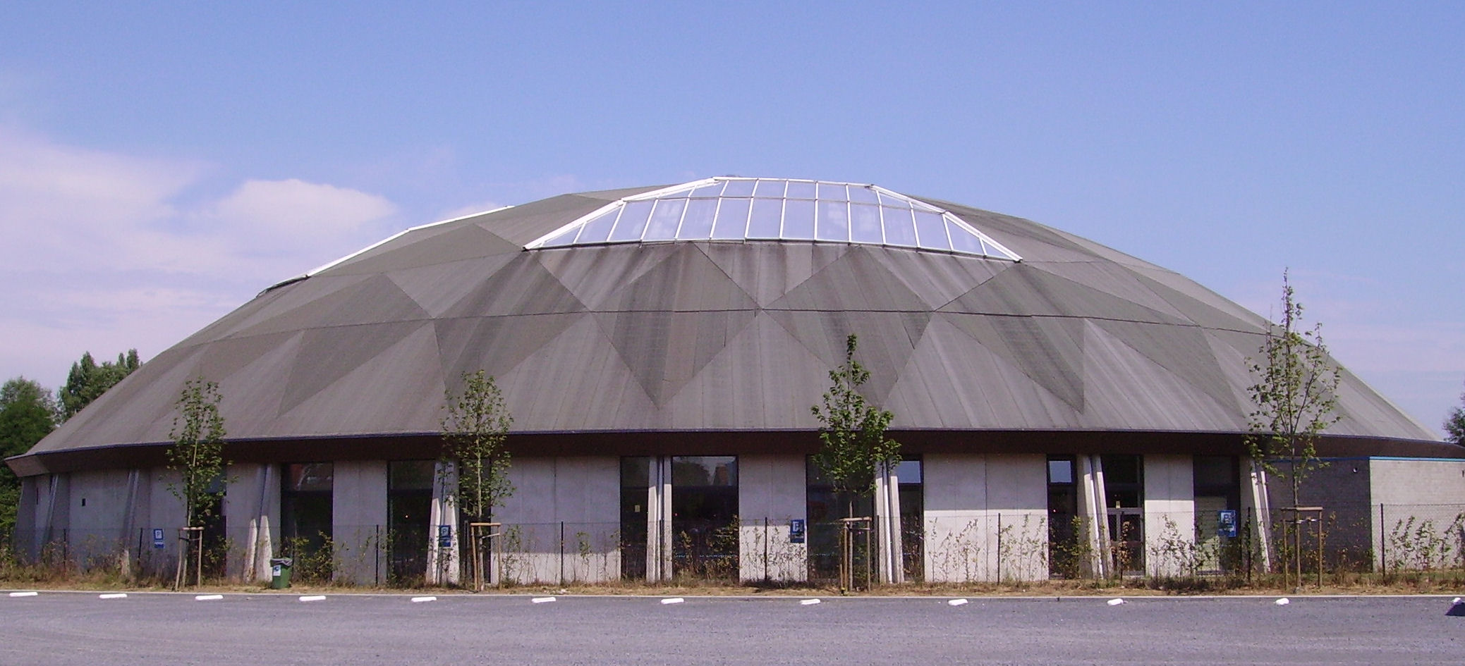 Boudewijnpark near Brugge, Belgium